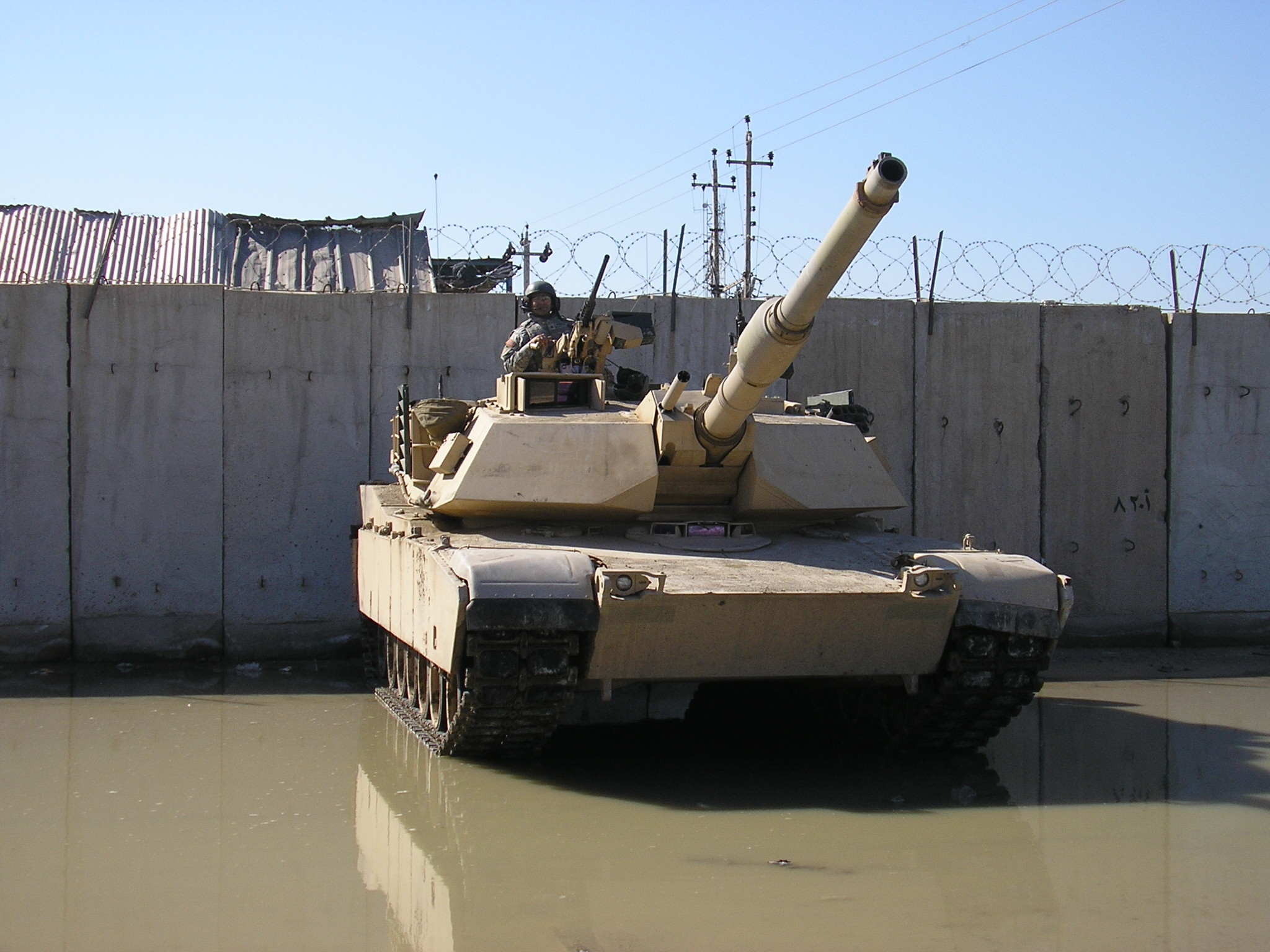 An M1A1 Abrams Main Battle Tank parked in the flooded motor pool of an Iraqi Police compound in southwest Baghdad, Iraq. The tank belonged to the Executive Officer of Company A, 1st Battalion, 77th Armor Regiment, Task Force 1-18 Infantry, 2nd "Dagger" Brigade Combat Team, 1st Infantry Division during Operation Iraqi Freedom 06-08.